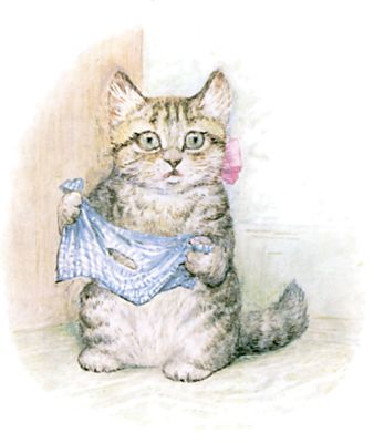 Illustration of Miss Moppet realizing the mouse has escaped from The Story of Miss Moppet